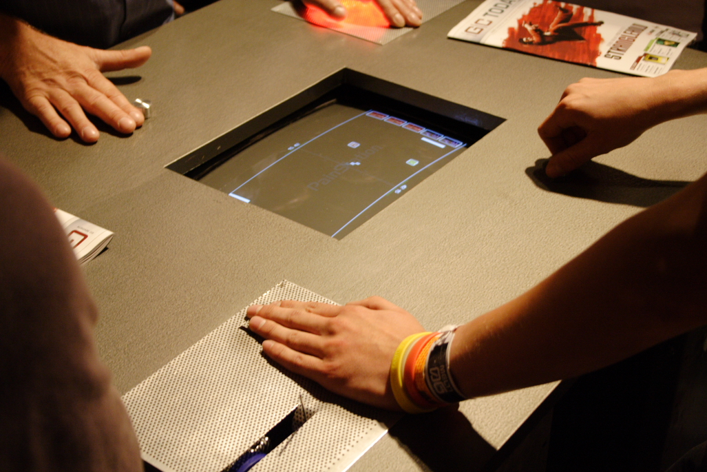 Two players using a Painstation